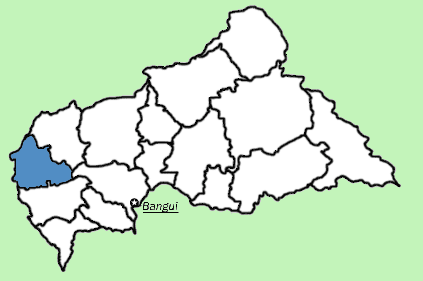 Map showing location of Nana-Mambéré_Prefecture in Central African Republic